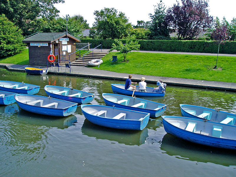 Boating on the Royal Military Canal at Hythe|. Picture taken by me in July 2004. Ian Dunster| 13:18, 22 February 2006 (UTC) Summary Boating on the Royal Military Canal at Hythe. Picture taken by me in July 2004. Ian Dunster 13:18, 22 February 2006 (UTC)